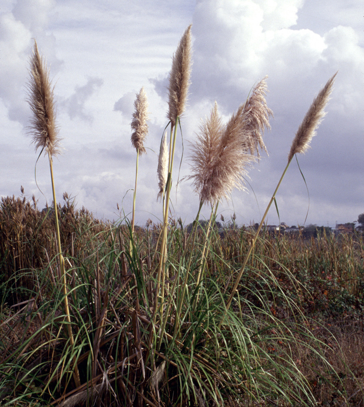 Cortaderia jubata at Humboldt Bay National Wildlife Refuge Complex, California, USA